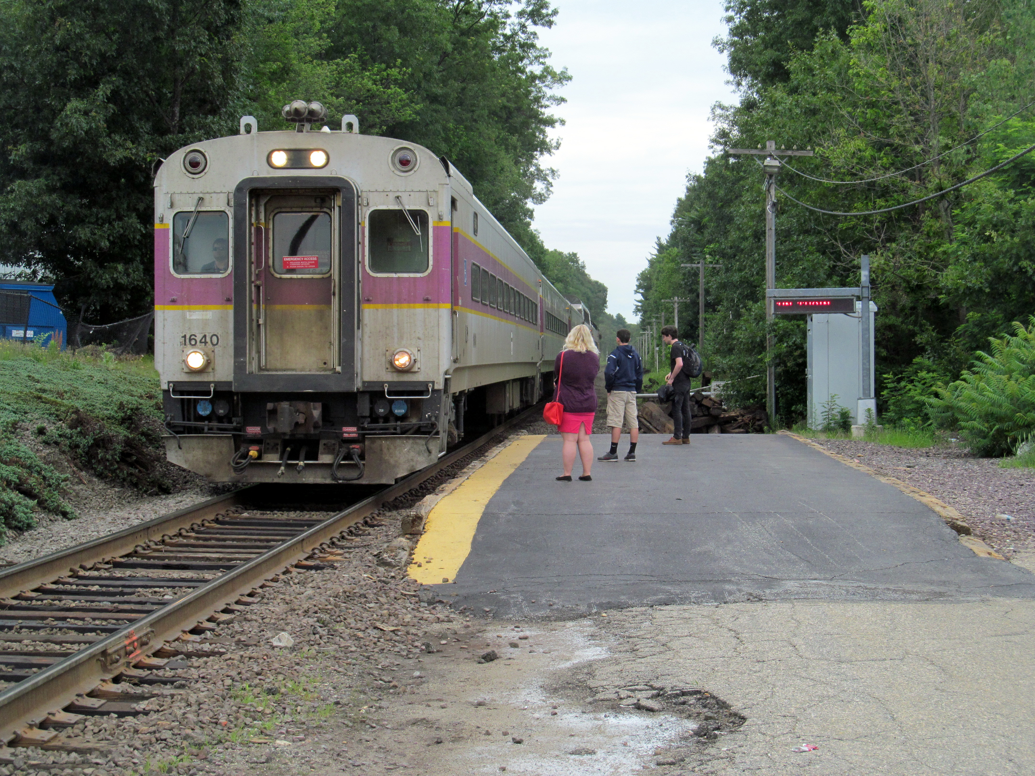 An inbound Haverhill Line train arrives at North Wilmington in June 2015